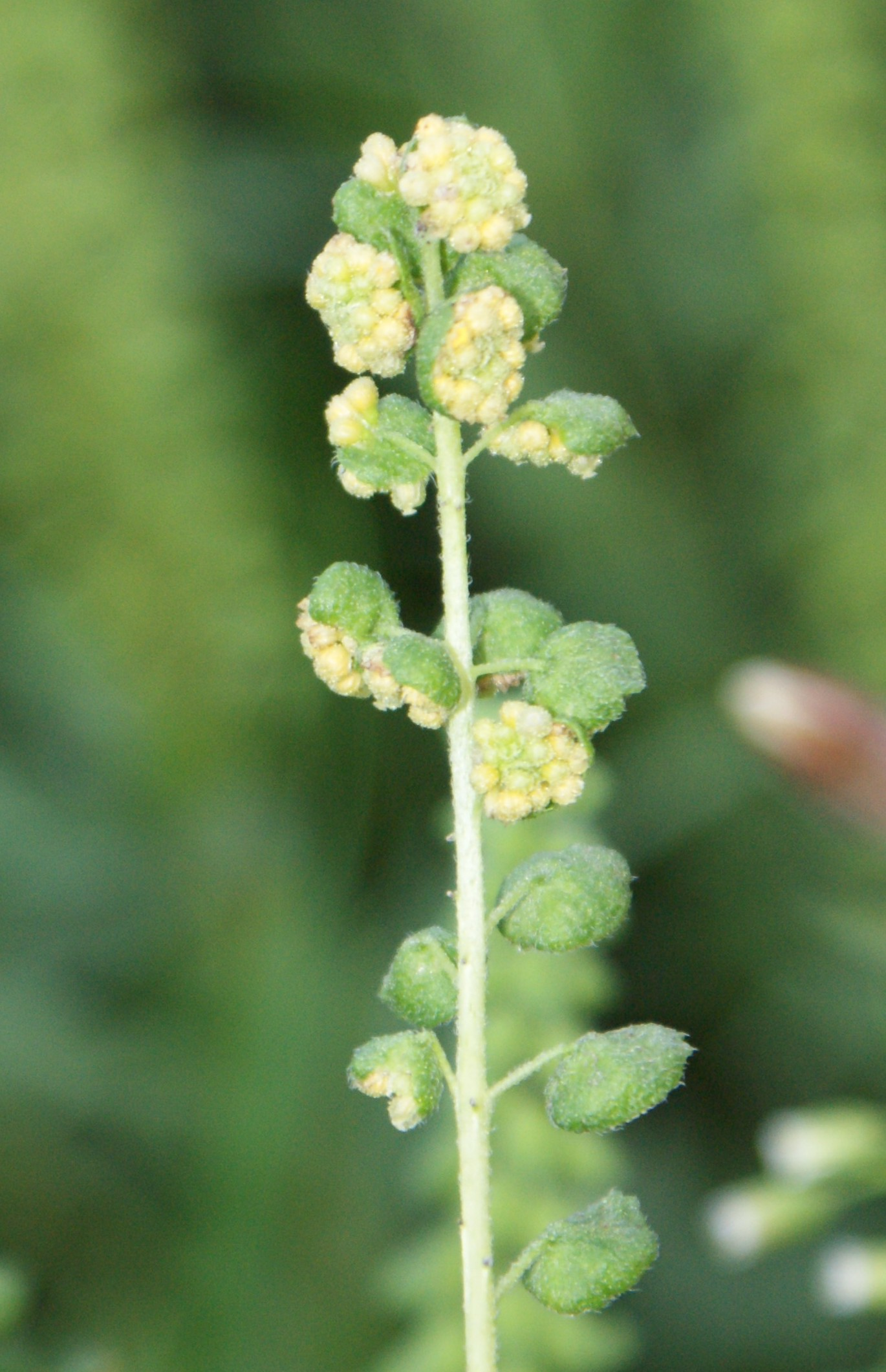 Ambrosia psilostachya, inflorescensce